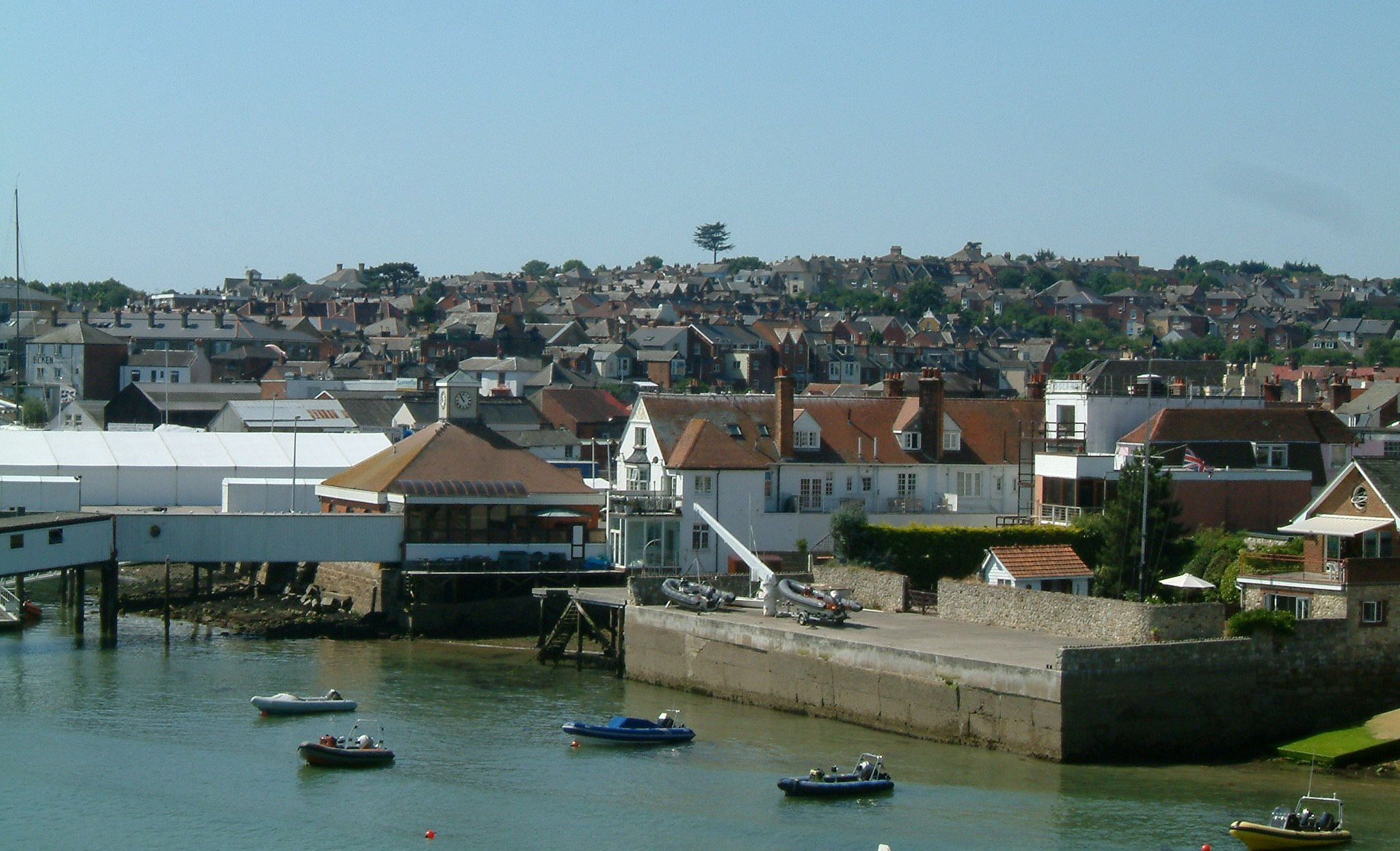 Cowes et East-Cowes, Island of Wight, UNITED KINGDOM